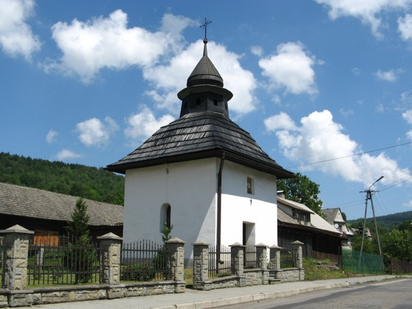 Shrine in Żarnówka, PL